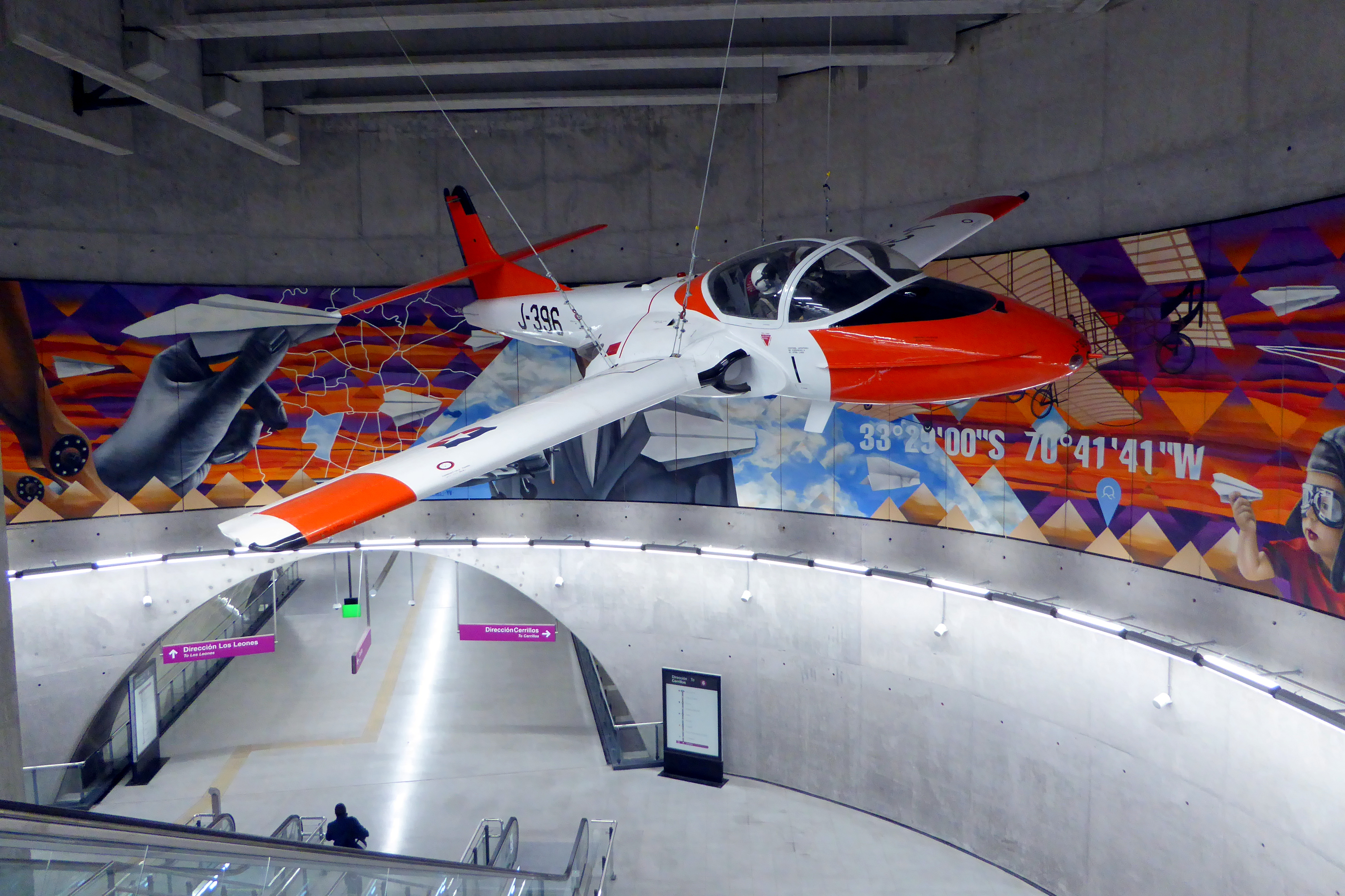 Cerrillos station of the Santiago Metro's Line 6, Chile. Front, a Cessna T-37 airframe, donated by the Chilean Directorate General of Civil Aviation; back, the mural El sueño de volar (The Dream of Flying), by Alme (José Yutronic).